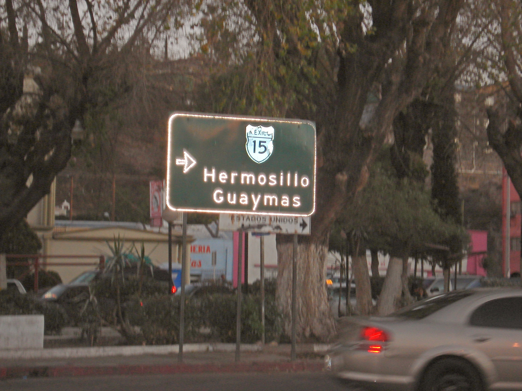 Button-copy Mexico 15 highway sign formerly located after the Mexico-U.S. border crossing in Heroica Nogales, Sonora, Mexico.